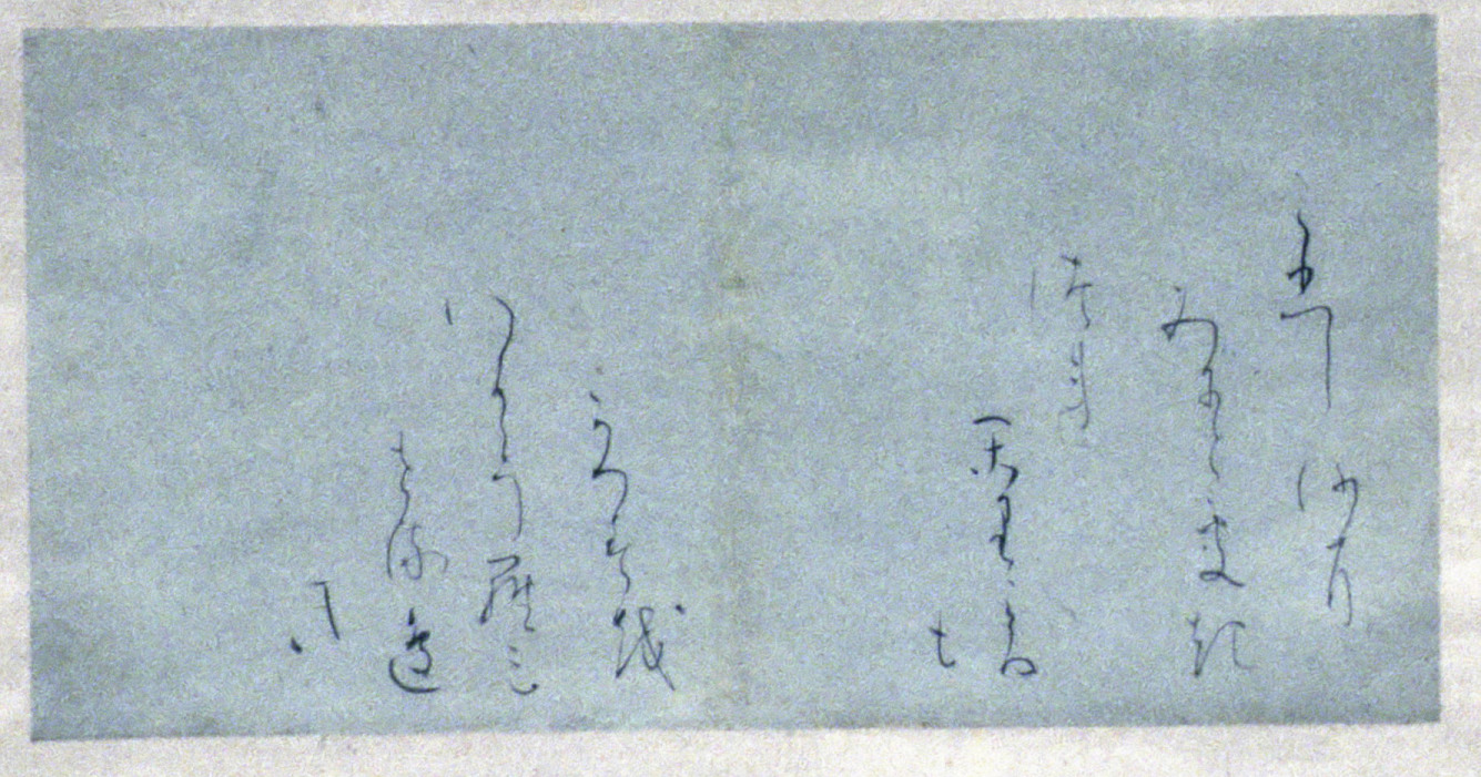 TUGI_SHIKISI (Calligraphy Sheet Jointed), Ink on Paper,11- 12th century, Japan, Tokyo National Museum, Tokyo, Japan